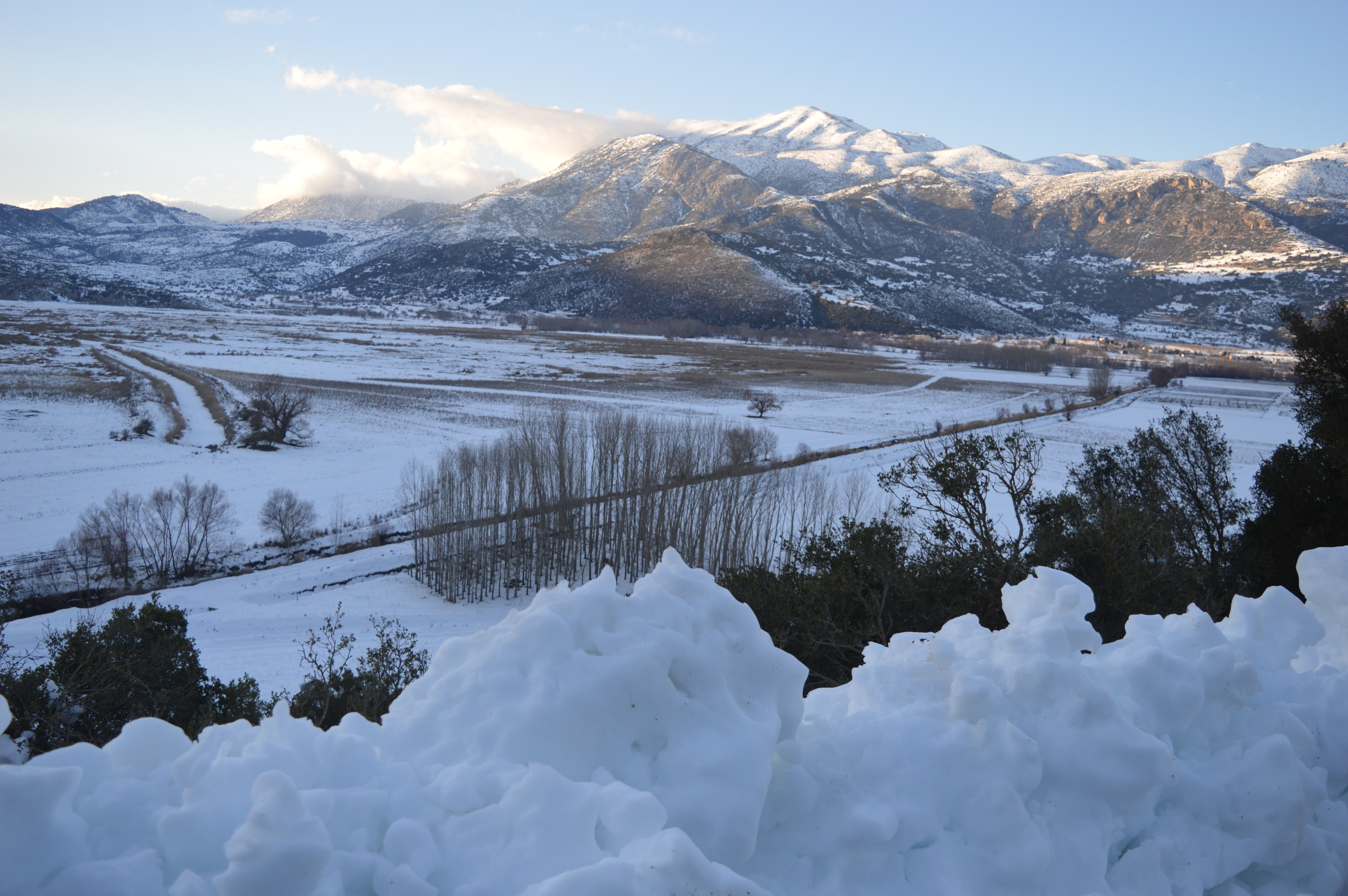 This is a photography of Natura 2000 protected area with ID GR2530002